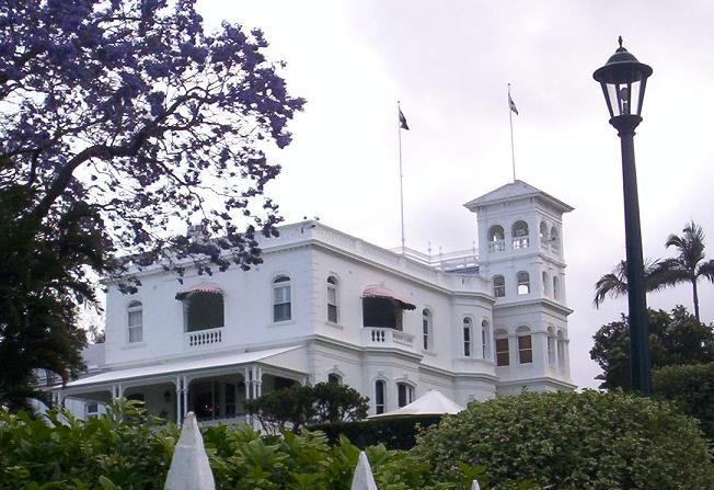 Queensland Government House at Bardon ( this photograph was taken by Figaro )